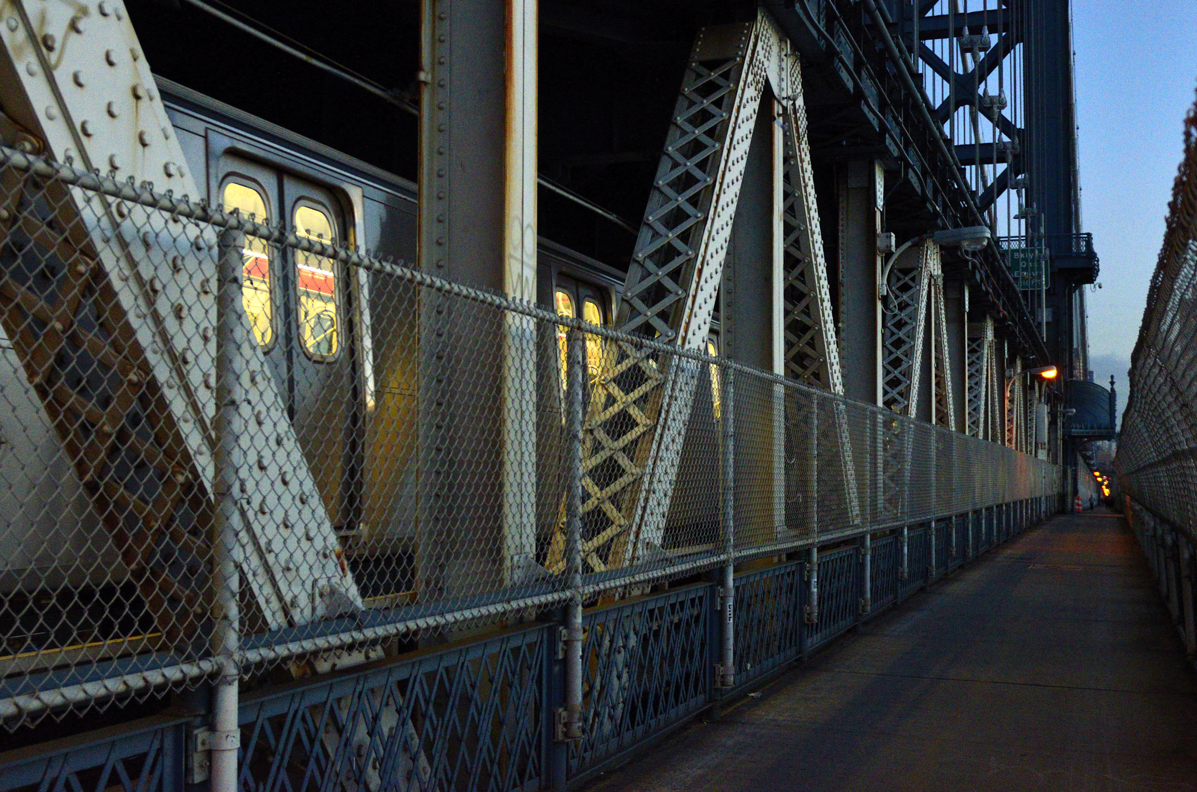 November 16, 2013 Scenes from walking across the Manhattan Bridge That's the subway going by on the left.